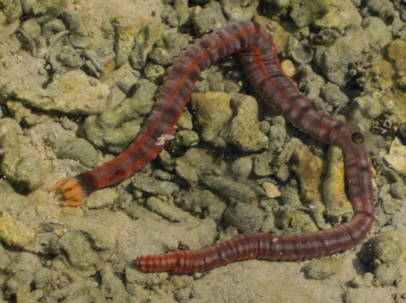 Conspicuou Sea Cucumber (Opheodesoma spectabilis), Coconut Island, Hawaii